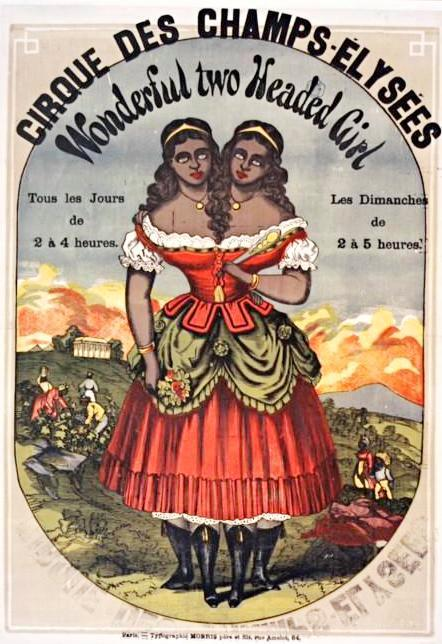 Ad poster about Millie-Christine McKoy